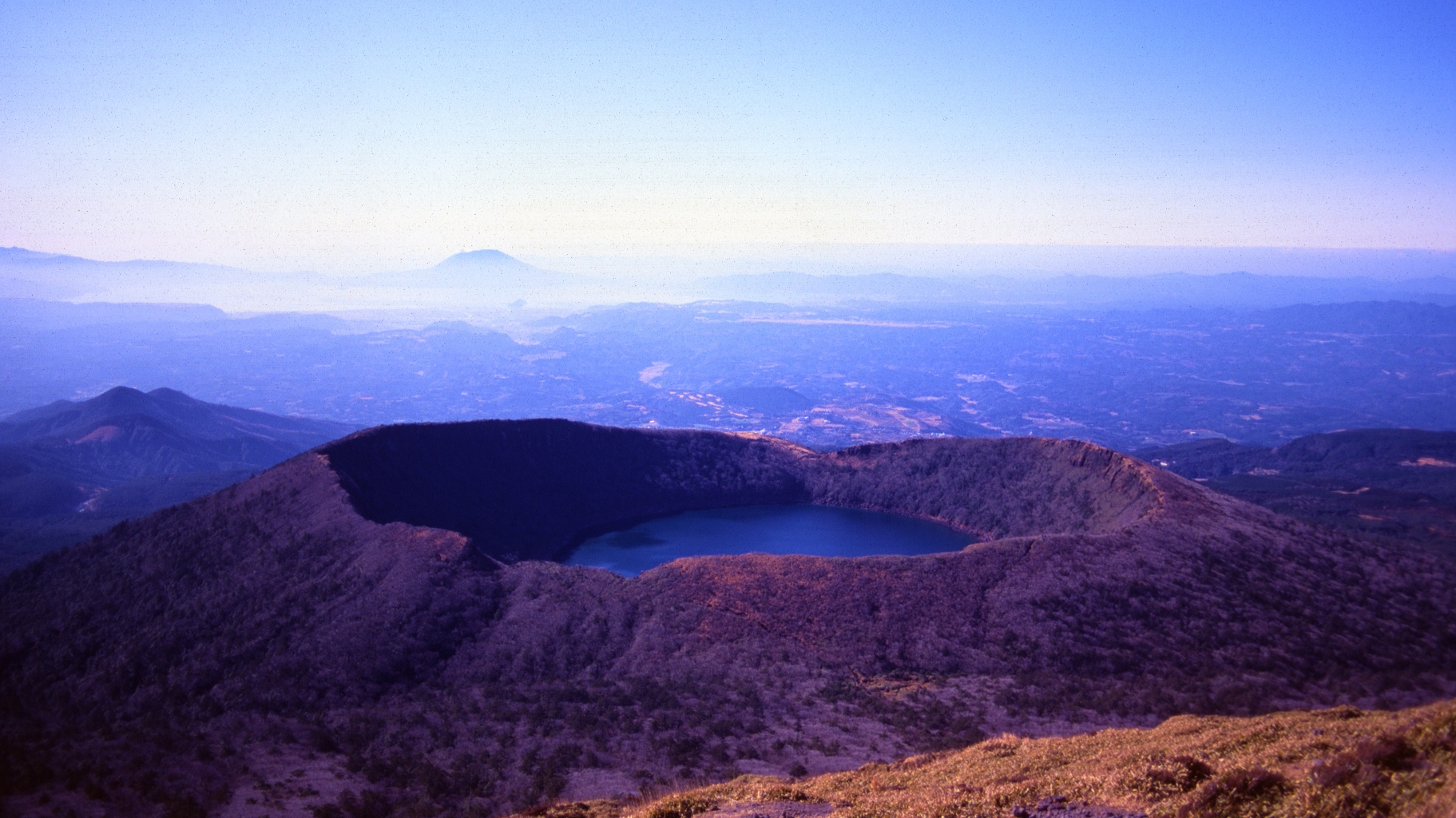 Ohnami-ike seen from Karakunidake.